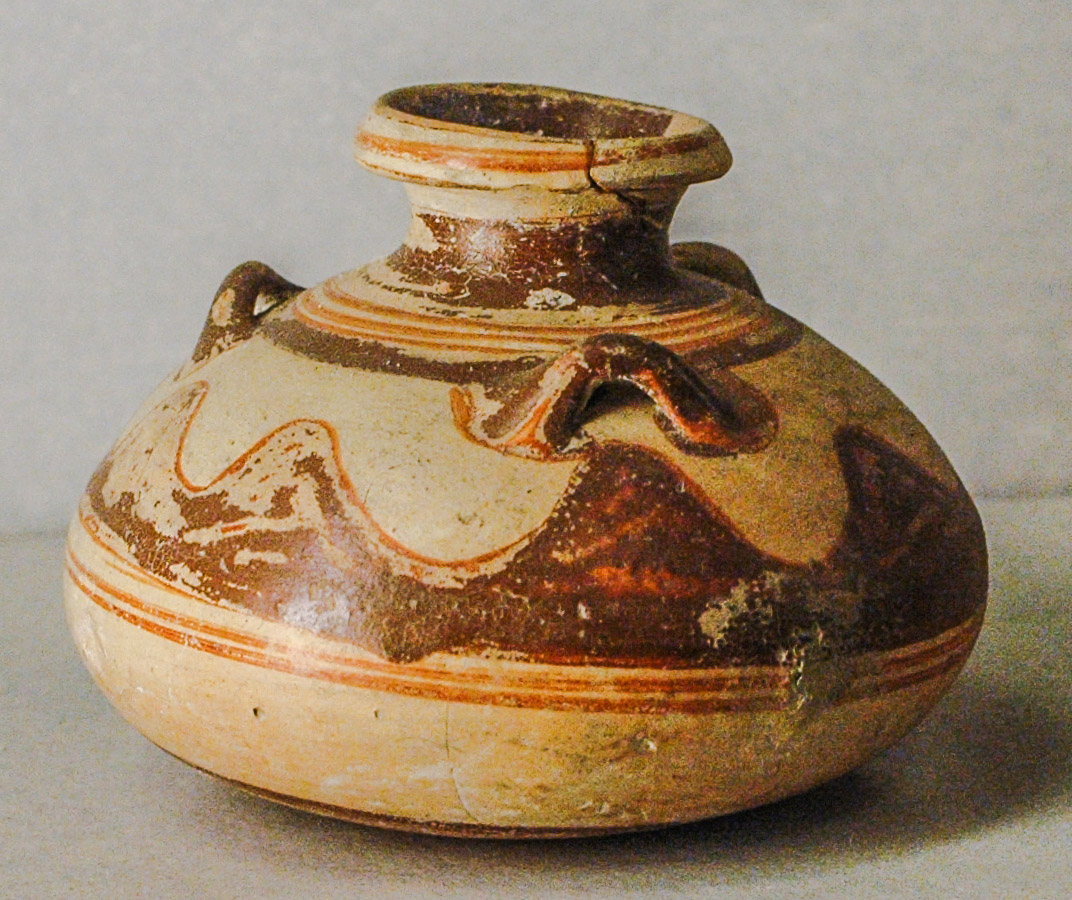 Alabastron from Rhodes. Terracotta, Late Helladic IIIA2 (ca. 1350 BC).